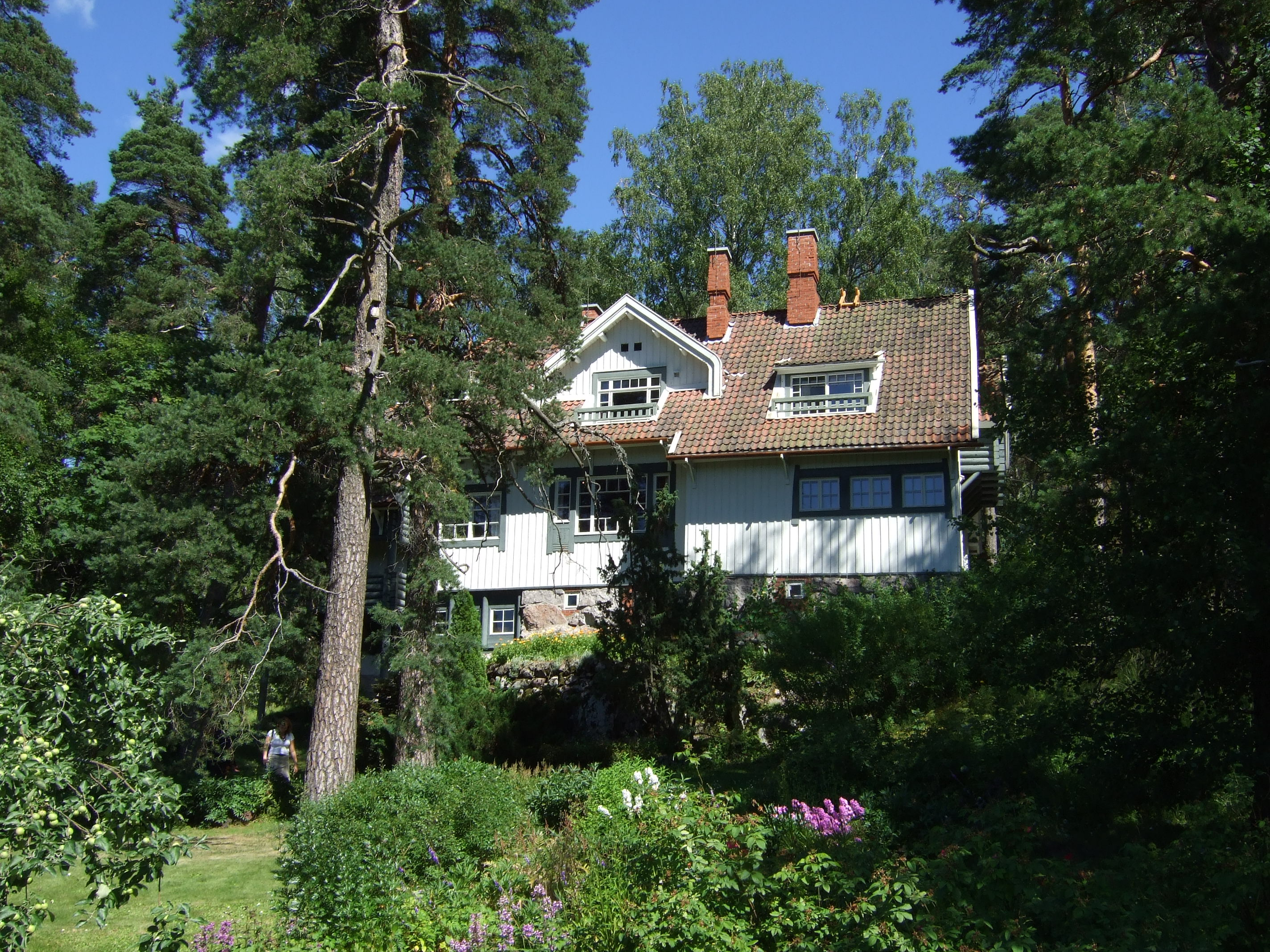 Ainola, Residence of Jean Sibelius in Järvenpää, Finland